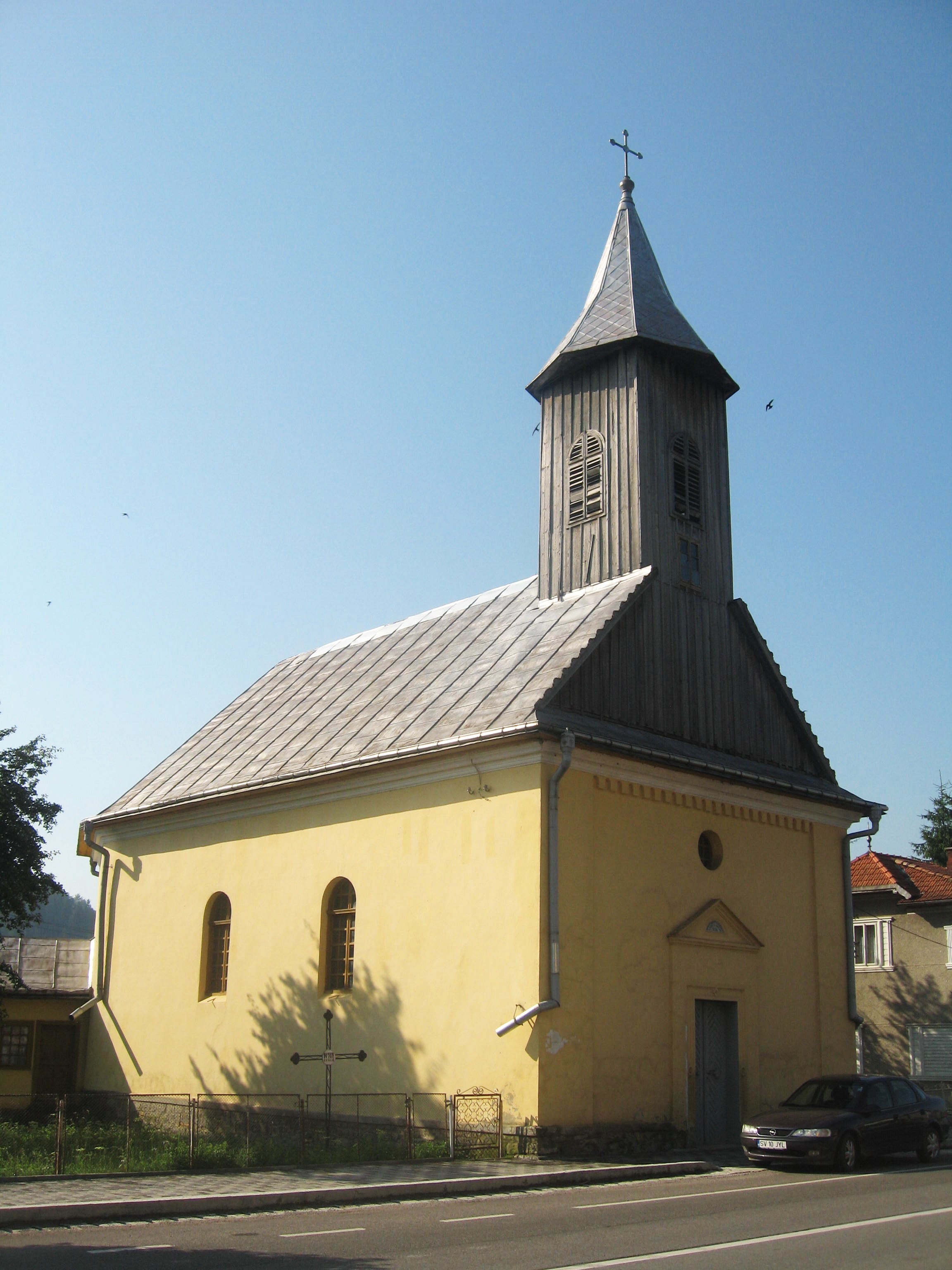 Roman-Catholic Church in Vama, Suceava County, Romania